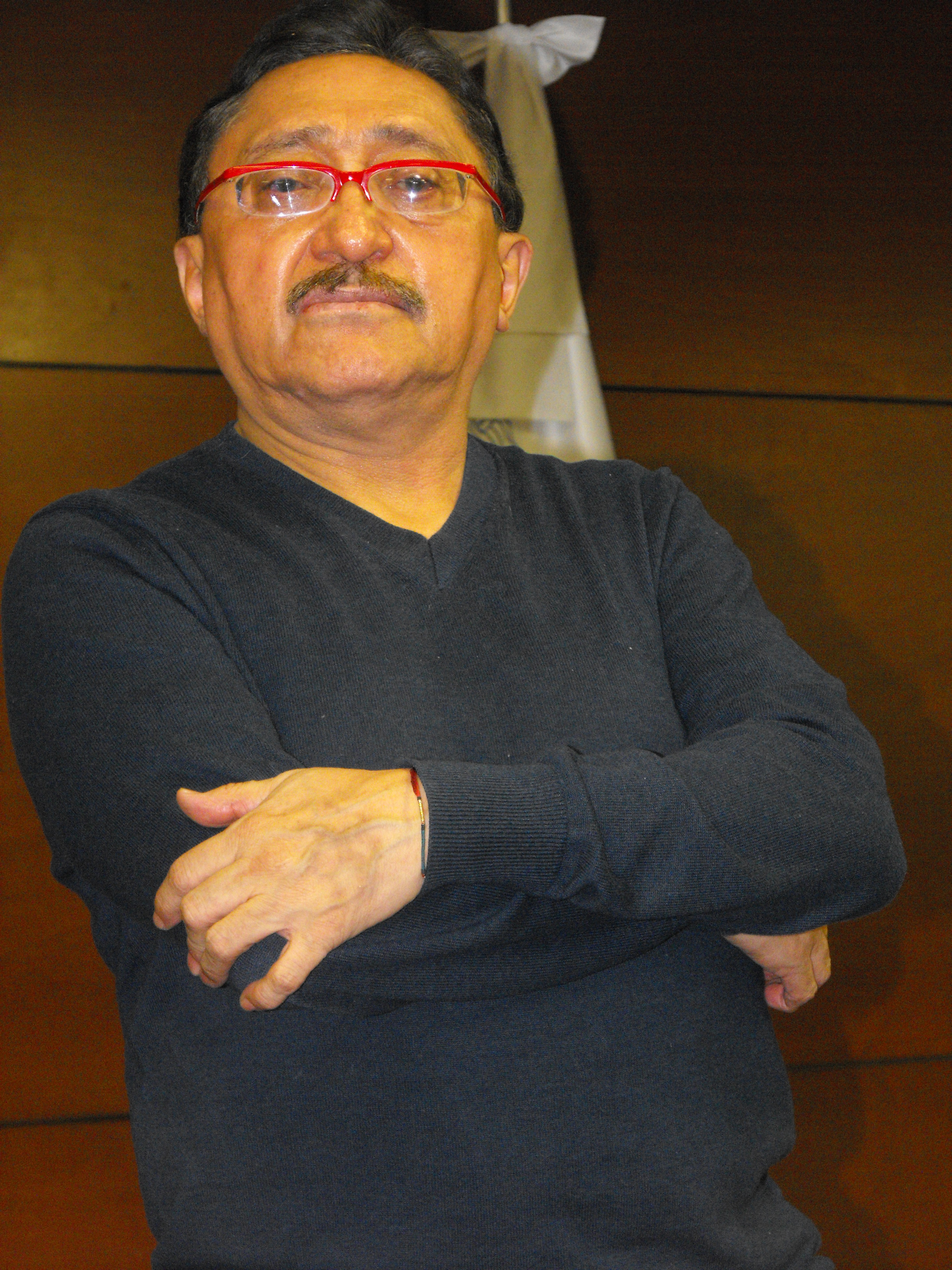 Sergio González Rodríguez presenting at the Tec de Monterrey, Mexico City Campus